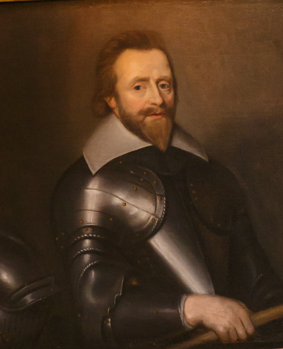 circle of Cornelis Janssens van Ceulen|Cornelius Johnson, Sir Charles Coote, 1st Baronet, ca. 1630